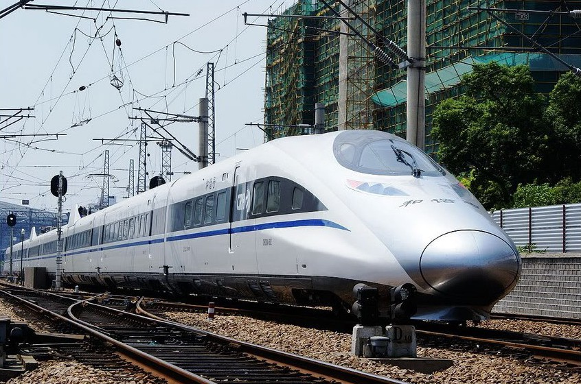 CHR380A